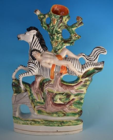 Staffordshire spill vase, circa 1860, depicting punishment accorded to Mazeppa. Popular poem by Lord Byron.